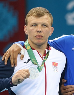 Wrestling at the 2017 Islamic Solidarity Games, Greco-Roman 71 kg podium